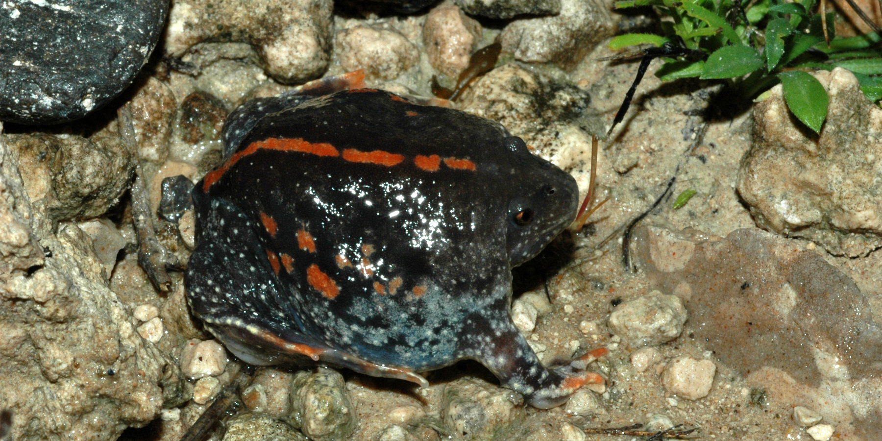 Burrowing Toad (Rhinophrynus dorsalis), Municipality of Reynosa, Tamaulipas, Mexico. Photographed on 8 October 2007 by William L. Farr.